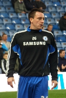 John Terry, Chelsea & England footballer. The following watermark was cropped out: “Copyright © 2008 John Dobson”